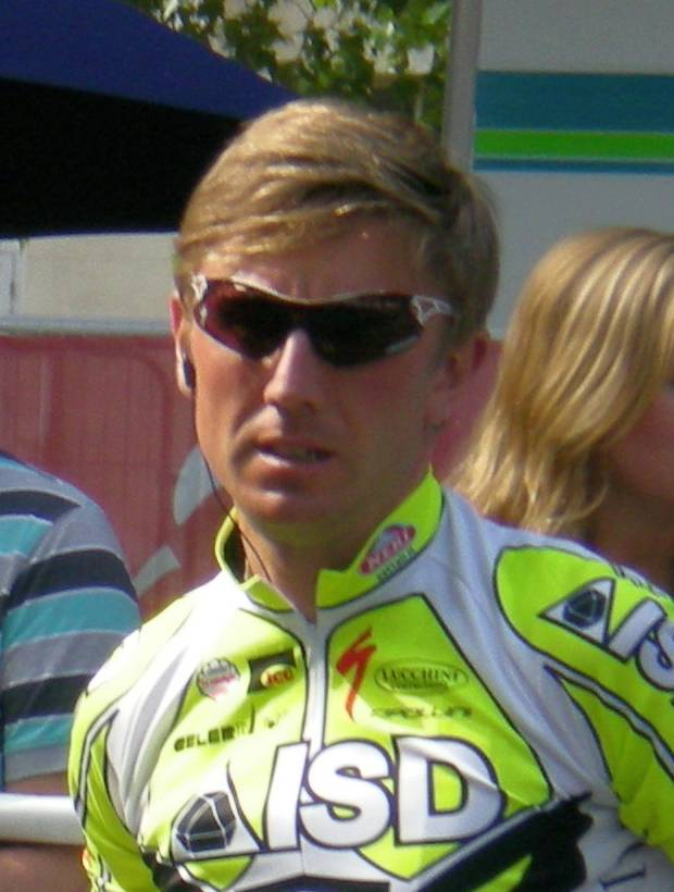 Bartosz Huzarski at 2009 Tour of Britain